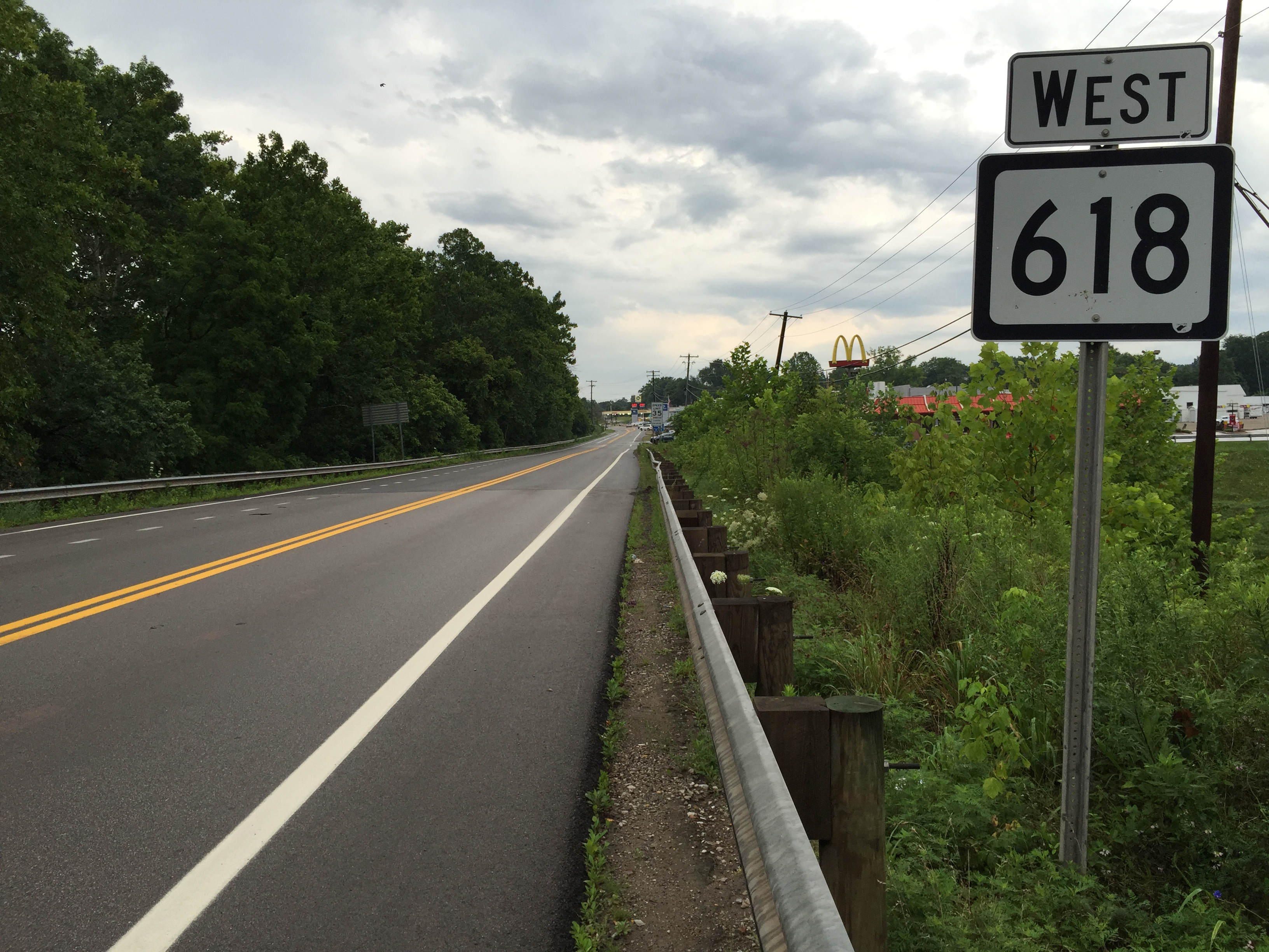 View west along West Virginia State Route 618 (Seventh Street) just west of U.S. Route 50 (Northwestern Turnpike) in Parkersburg, Wood County, West Virginia